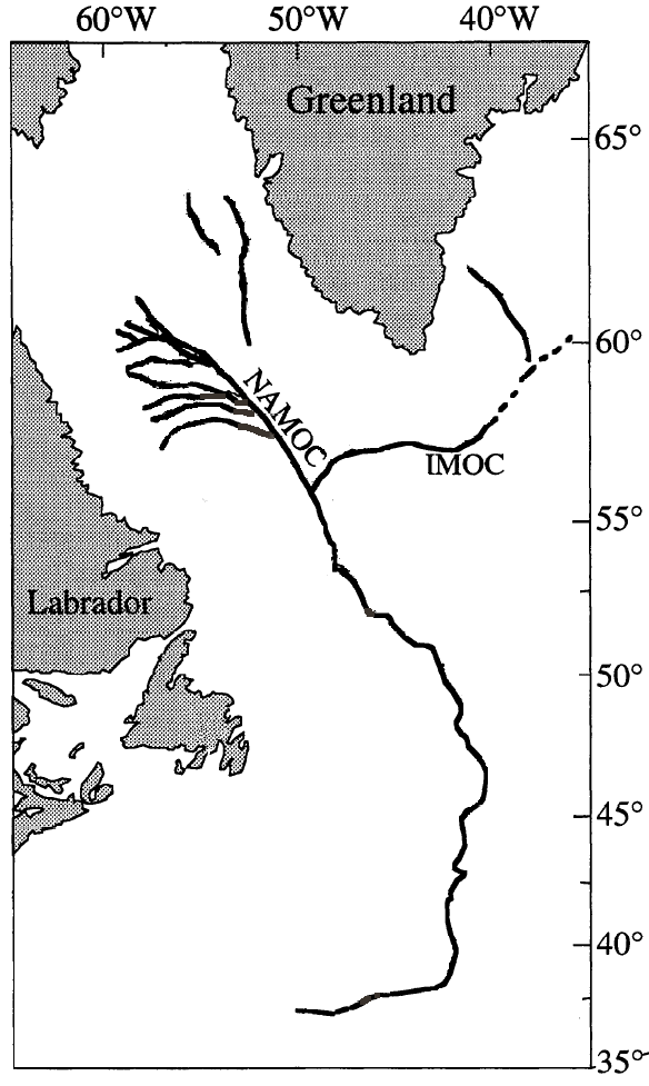 A map of The Northwest Atlantic Mid-Ocean Channel (NAMOC); redrawn after "The magnetic signature of rapidly deposited detrital layers from the deep Labrador Sea: Relationship to North Atlantic Heinrich layers". Paleoceanography.